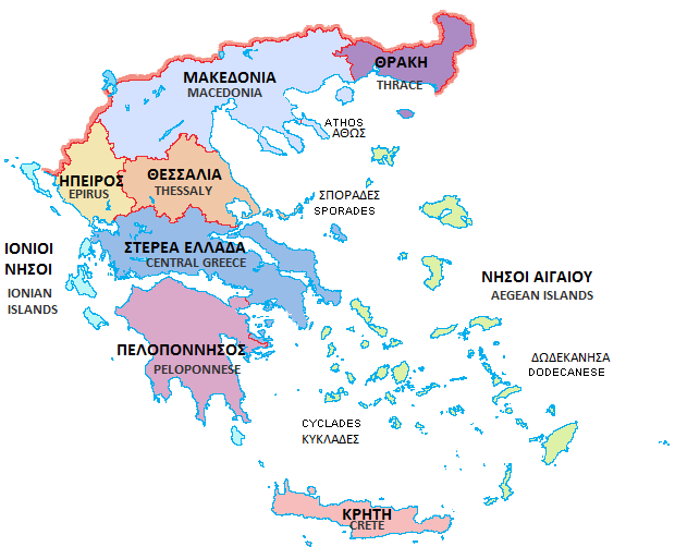 author: User:Contributor175 from English Wikipedia. Adapted from Image:GreeceRegionsEnglish_corrected.png to correct spelling mistake (North Aegean) and coloring mistake (part of Limnos).